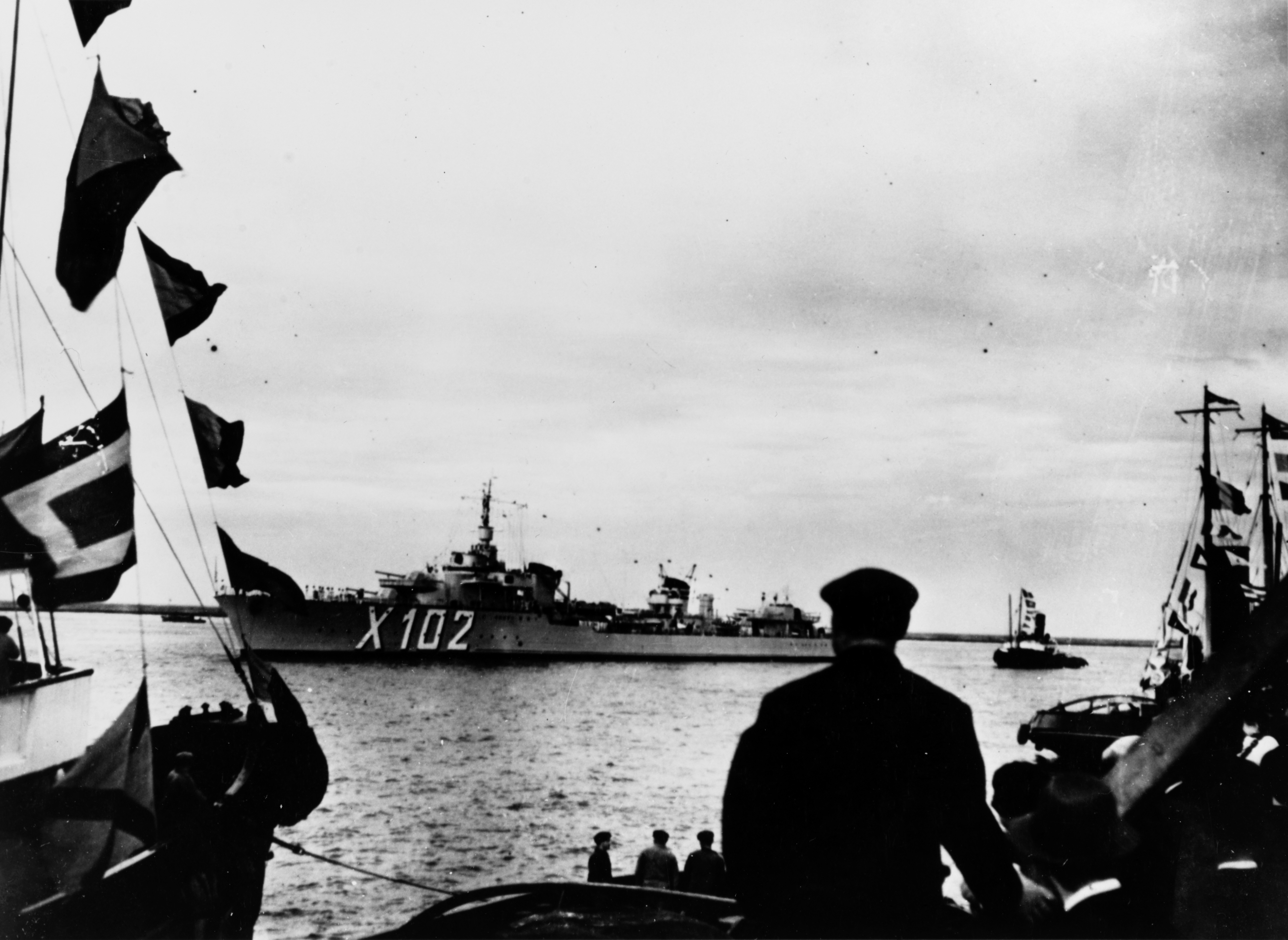 French contre-torpilleur L'Audacieux, circa 1939